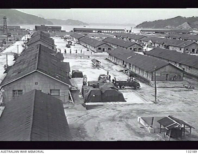 EXTERIOR OF THE CAMP BUILDINGS. THE CAMP, 5 MILES FROM HIROSHIMA, WAS FORMERLY USED BY THE JAPANESE AS AN ARMY ORDNANCE DEPOT, THEN LATER OCCUPIED BY UNITS OF BCOF.